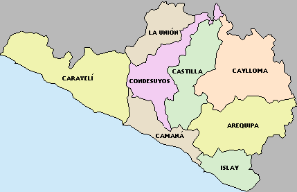 Map of the provinces of the Arequipa region Created by Tuomas Carrasco - Feb. 2005